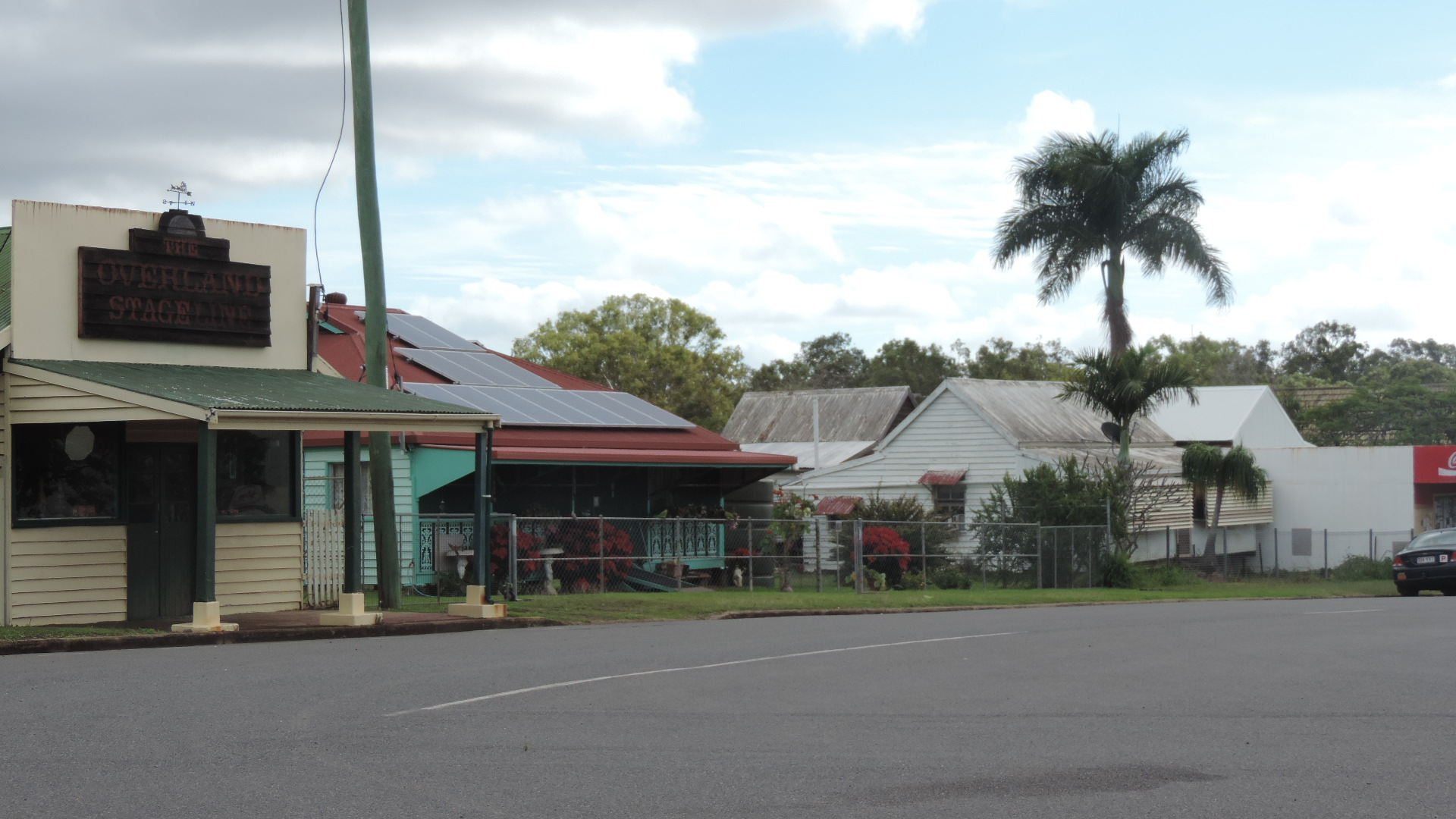 General store and streetscape, Rosedale, Queensland, 2016